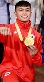 President Rodrigo Roa Duterte strikes his signature pose with the Filipino athletes who have brought home medals from various international competitions during their meeting at the Malago Clubhouse in Malacañang on October 16, 2019. RICHARD MADELO/PRESIDENTIAL PHOTO